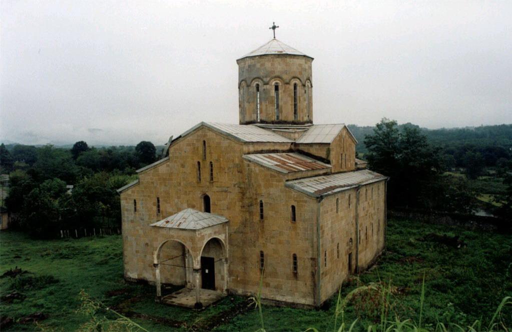 Cathedral in the village of Mokva, Abkhazia